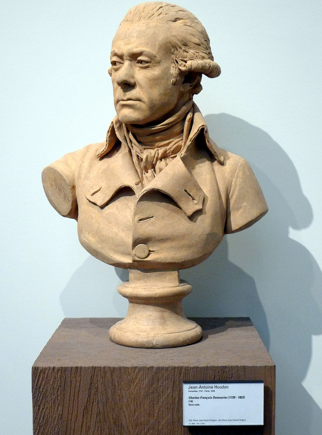 Terracotta bust of Charles-François Dumouriez by Jean-Antoine Houdon, 1792. Fine Arts museum of Angers, France.